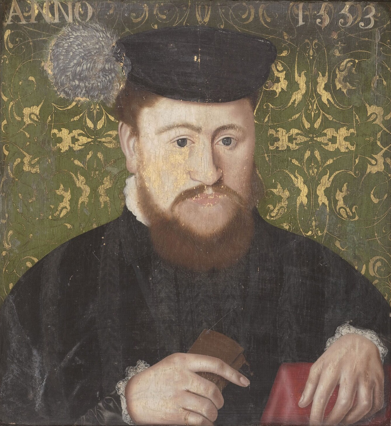 Portrait of Louis III de La Trémoïlle, duc de Thouars - french school, location: Châteaux de Versailles et de Trianon, France